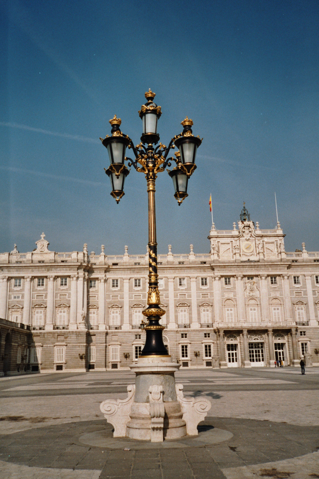 Description: The Palacio Real de Madrid (Royal Palace) in Madrid. Source: Self-made, I release it into the public domain.